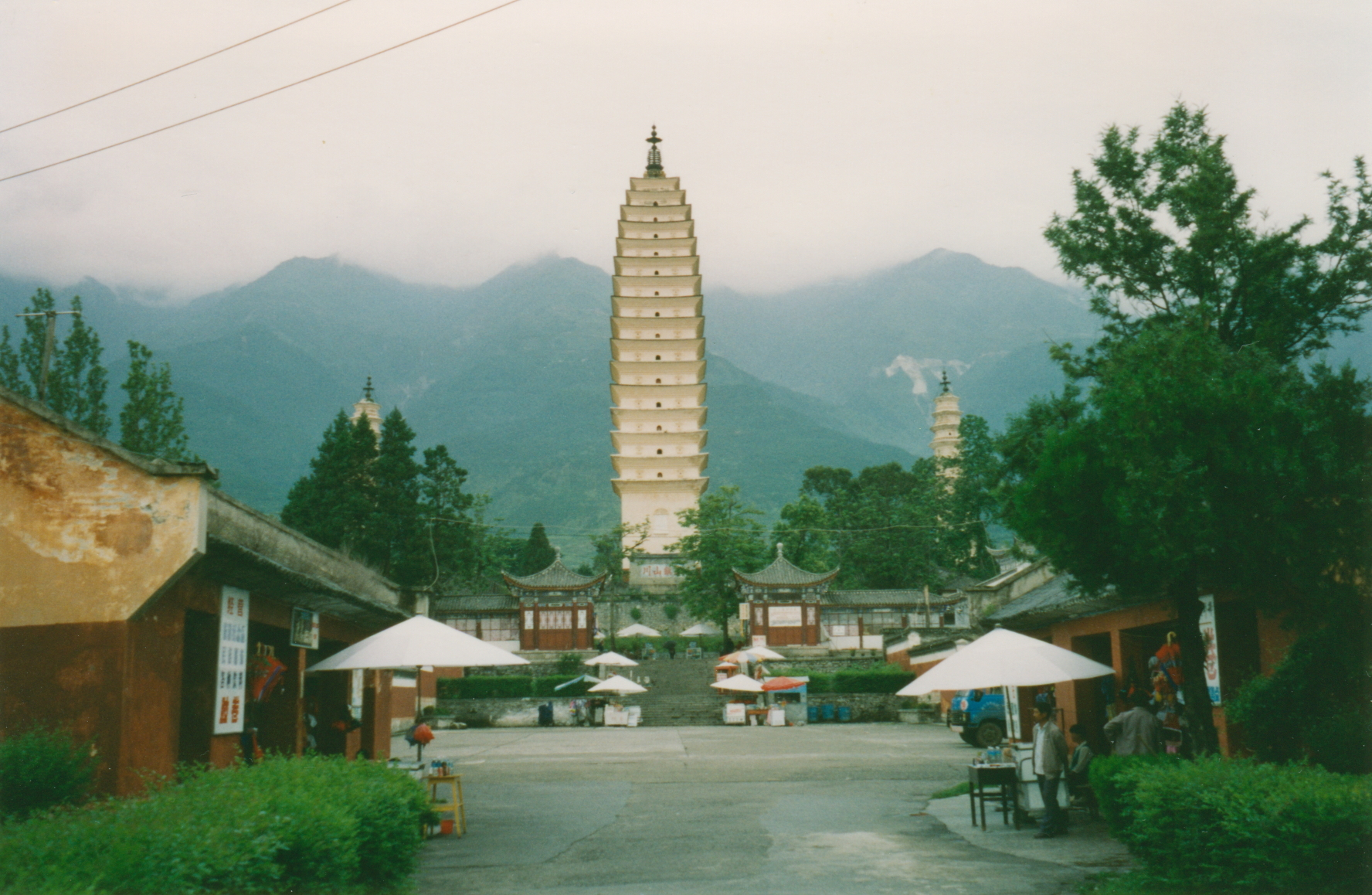 The Three Pagodas are an ensemble of three independent pagodas arranged on the corners of a equilateral triangle, near the town of Dali, Yunnan province, China, dating from the time of the Nanzhao kingdom and Kingdom of Dali. The Three Pagodas are made of brick and covered with white mud. As its name implies, the Three Pagodas comprise three independent pagodas forming a symmetric triangle. The main pagoda, known as Qianxun Pagoda, reportedly built during 823-840 AD by king Quan Fengyou of the Nanzhao state, is 69.6 meters high and is one of the tallest pagodas in China’s history. The central pagoda is square shaped and composed of sixteen stories; each story has multiple tiers of upturned eaves. The other two sibling pagodas, built about one hundred years later, stand to the north-west and south-west of Qianxun Pagoda. They are 42.19 meters high. Different from Qianxun Pagoda, they are solid and octagonal with ten stories. (From Wikipedia